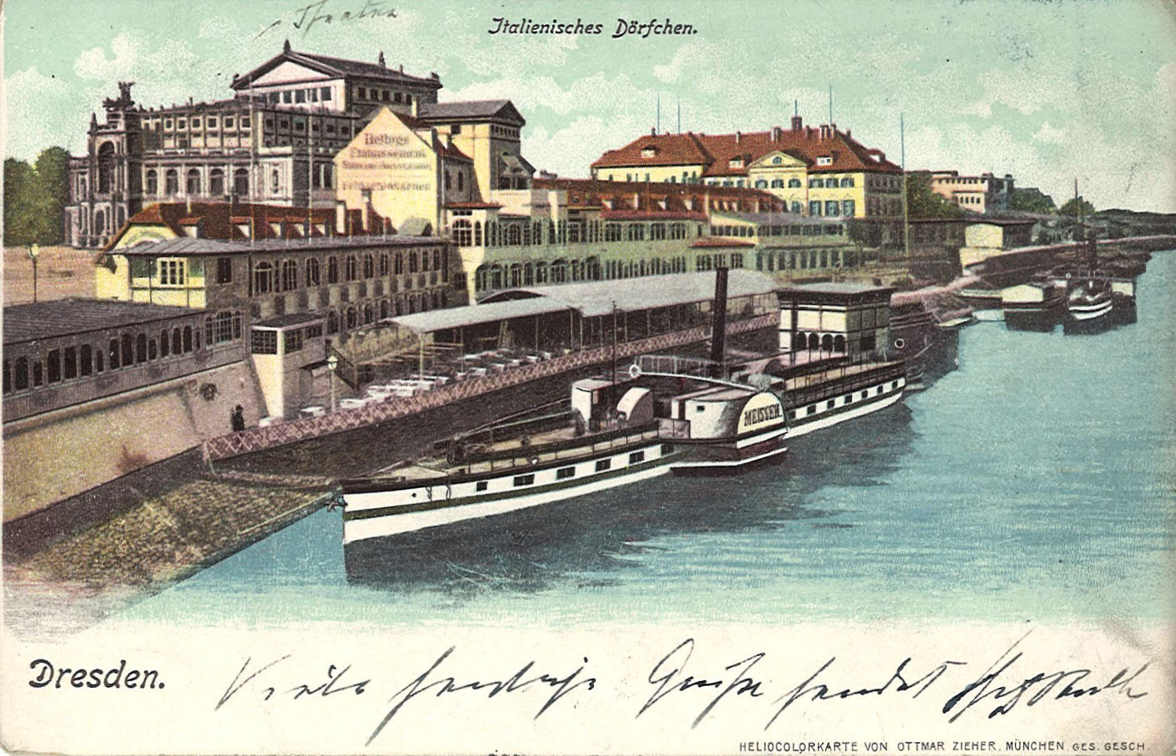 Steam ship "Meißen" from 1907: "Crown prince Wilhelm") in 1901 in Dresden (picture postcard)